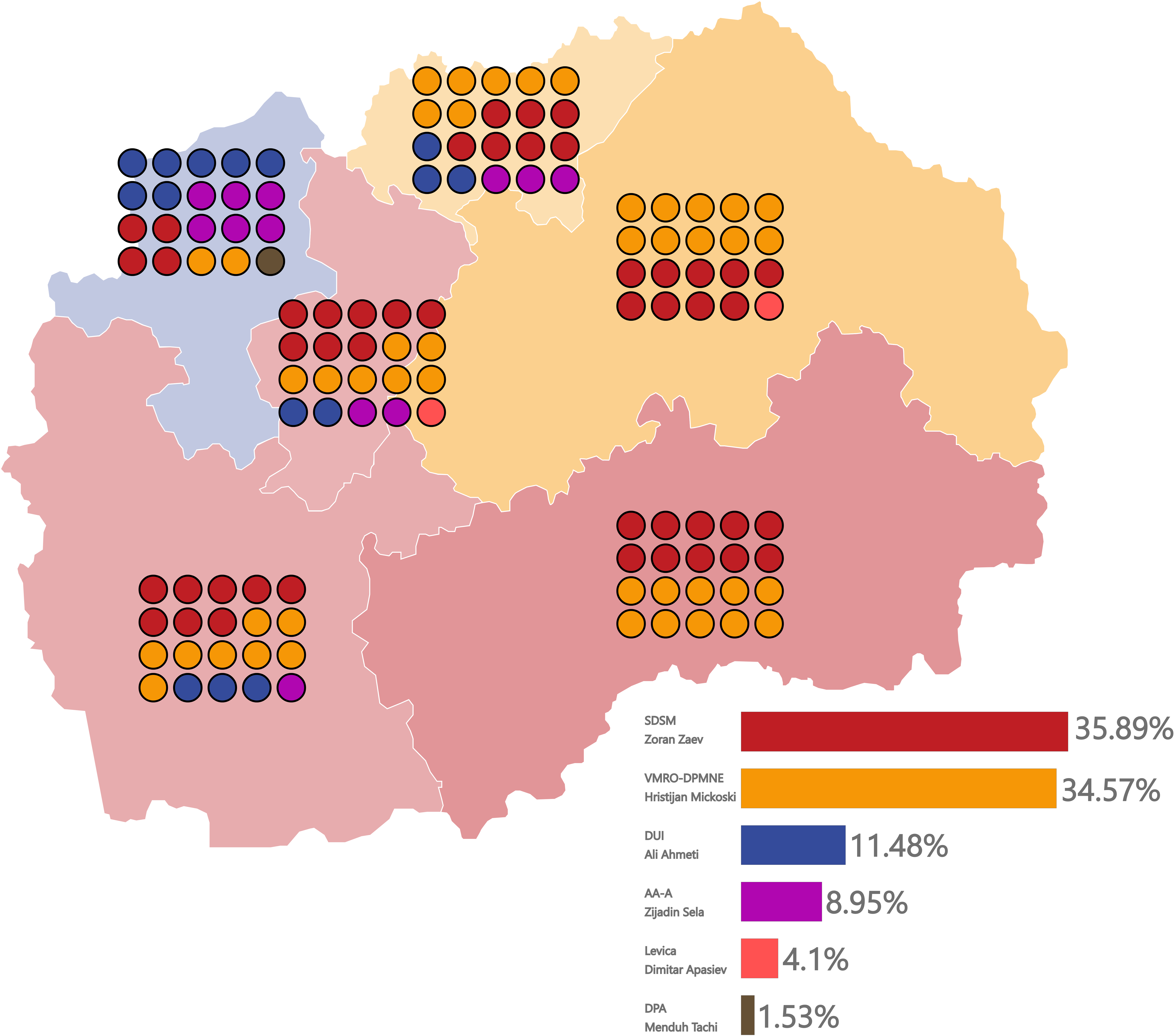 Results of the parliamentary elections by constituency showing the colour of the largest party and the seat distributions